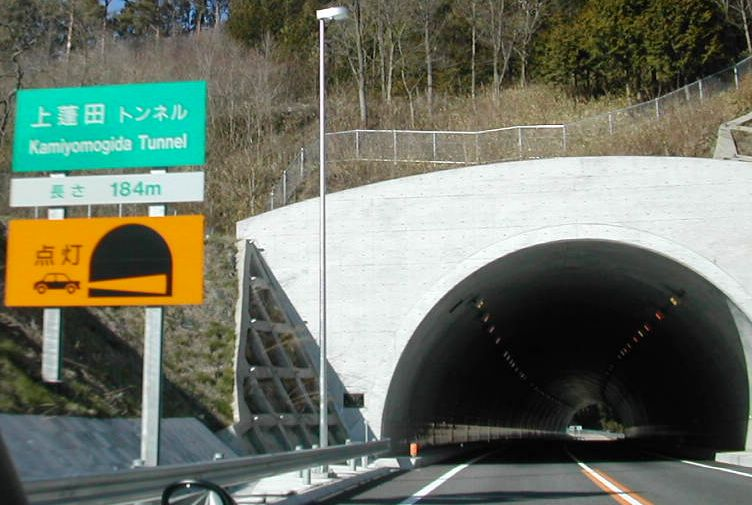 The Kamiyomogida Tunnel on the Abukuma Kogen Road in Fukushima Prefecture, Japan